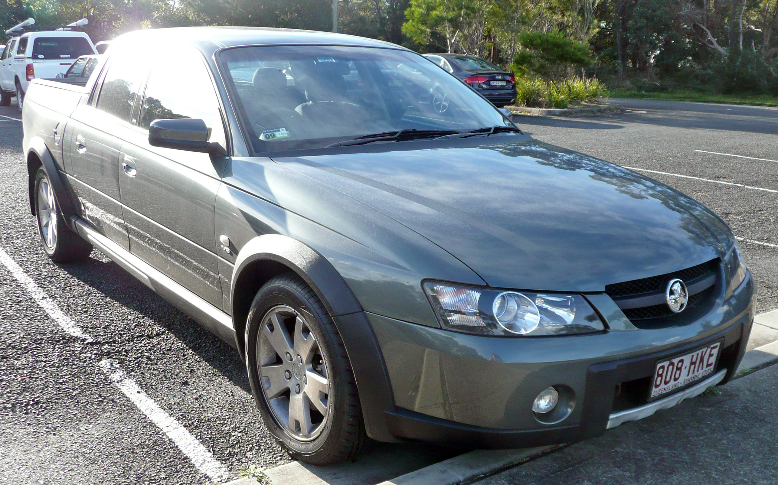 2003–2005 Holden Crewman (VY II) Cross 8 utility. Photographed in Sutherland, New South Wales, Australia.